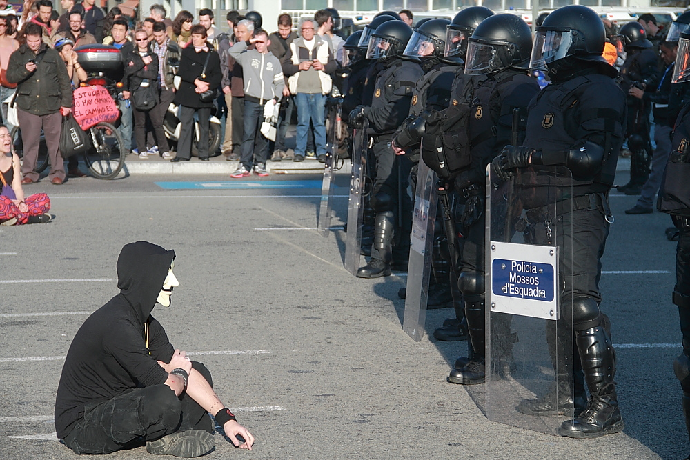 Protester against retallades in Catalonia with Mossos.